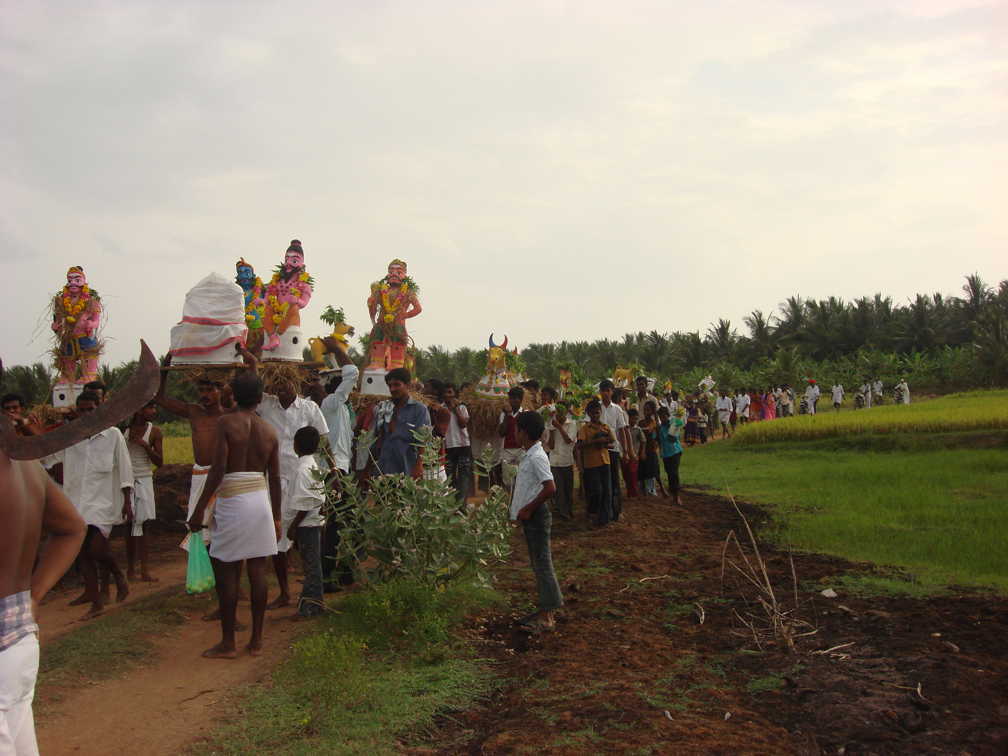 முடச்சிக்காடு அய்யனார் கோவில் திருவிழா முடச்சிக்காடு